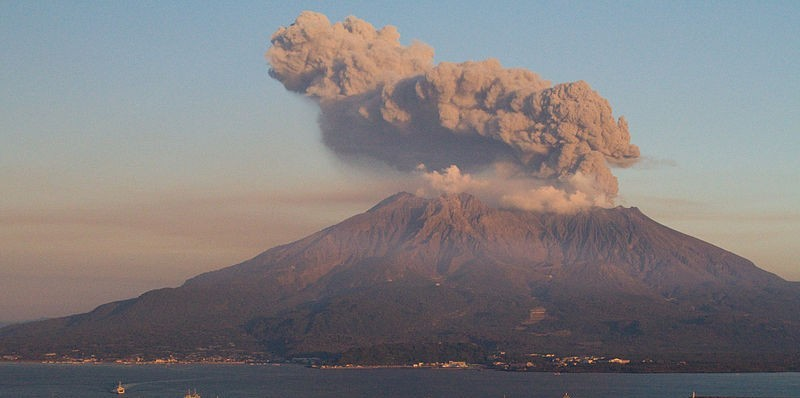 Sakurajima at Sunset. Sakurajima, right across Kagoshima city. One of the most active volcanoes in the world. 31° 35' 46.53" N, 130° 33' 0.35" E